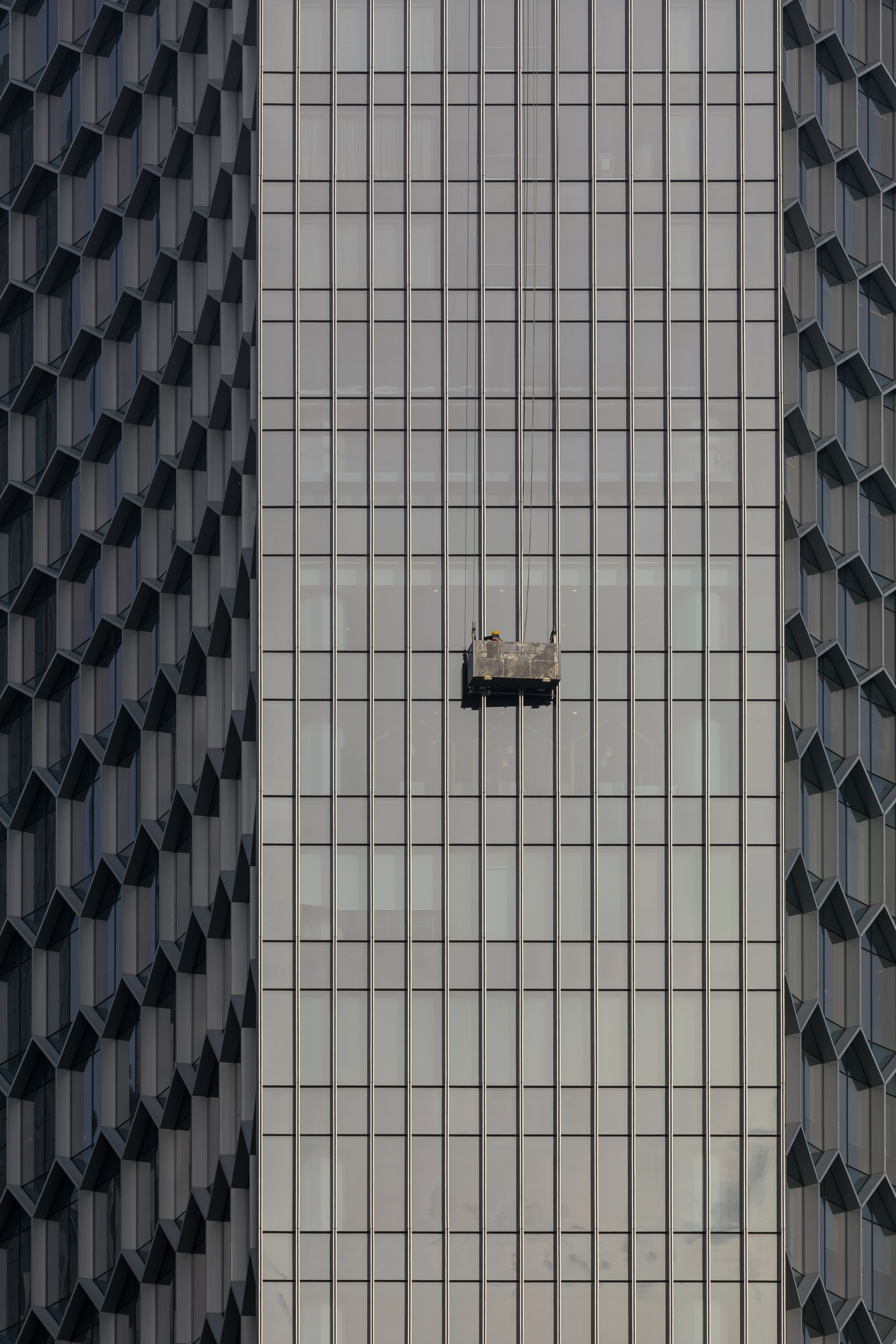 Façade hoist along the windows of the Andaz Hotel of Singapore with a man inside, cleaning or working at sunset